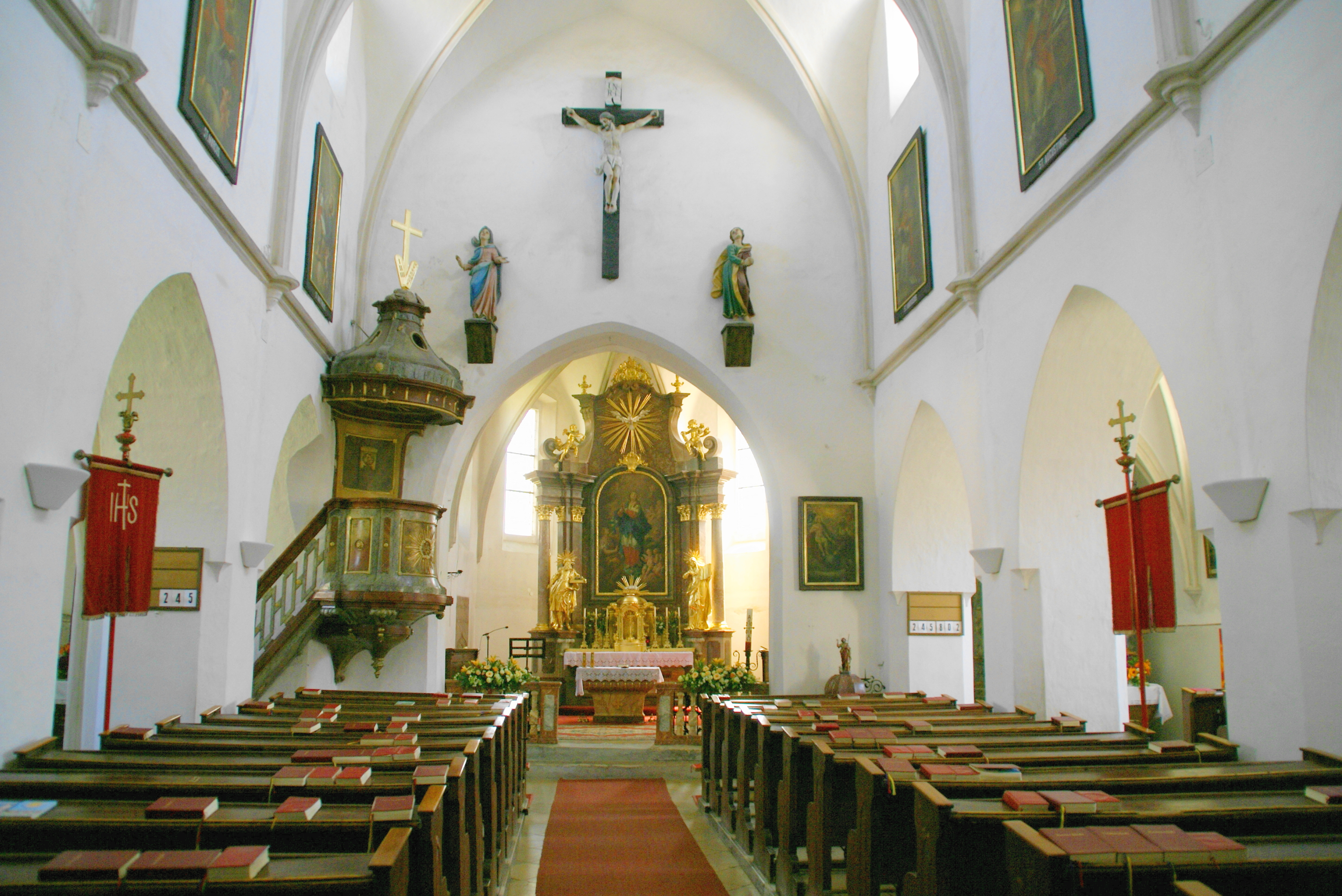 gotik church from kleinhain, near st.pölten, lower austria, origin 11./12. century, altar anno 1772